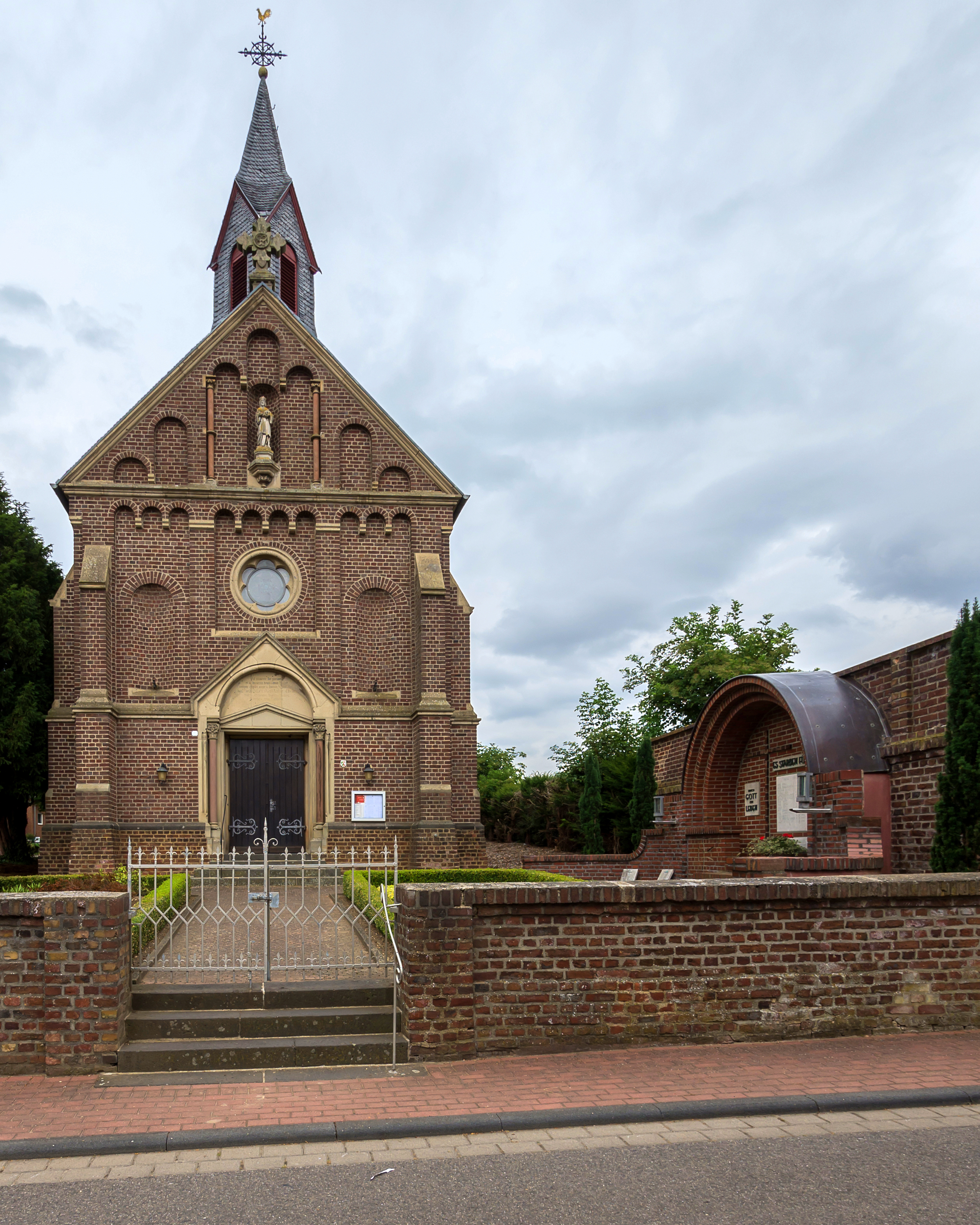 Pütz Hochstraße 8 Nepomuk-Kapelle + Ehrenmal IThis is a photograph of an architectural monument., no. 55